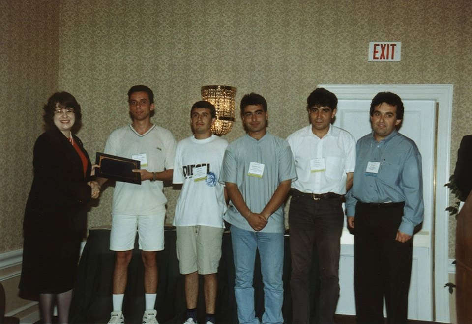 Students of the Technical University - Plovdiv branch at the finals of the Computer Science International Design Competition in Washington, June 2000